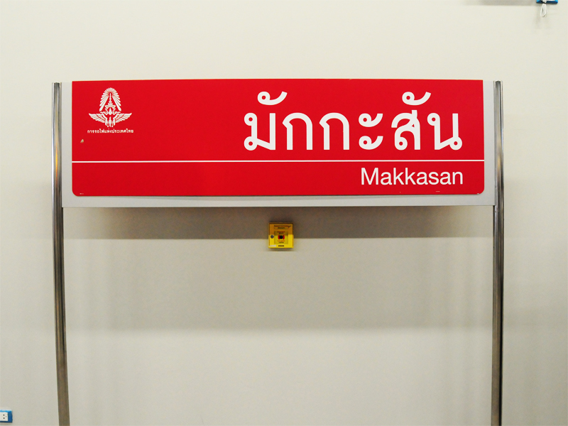 Makkasan Station Sign